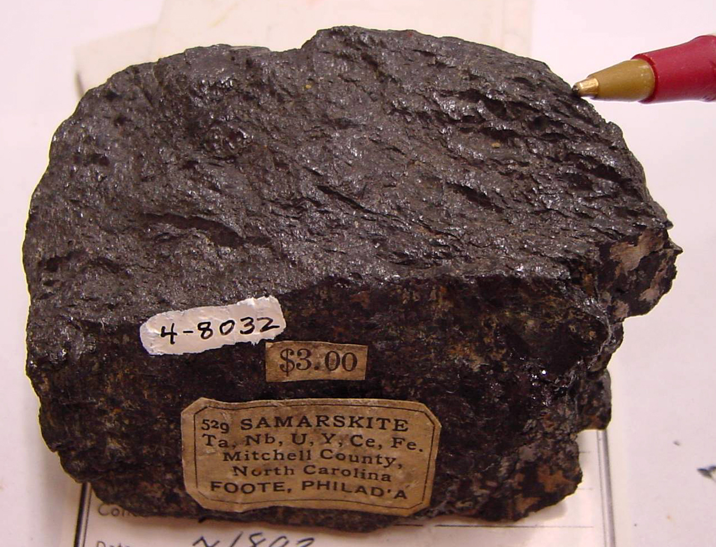 Samarskite. Mitchell County, North Carolina. Mineral collection of Brigham Young University Department of Geology, Provo, Utah. Photograph by Andrew Silver. BYU index 4-8032, (FeYU)_2(NbTiTa)_2O_7.